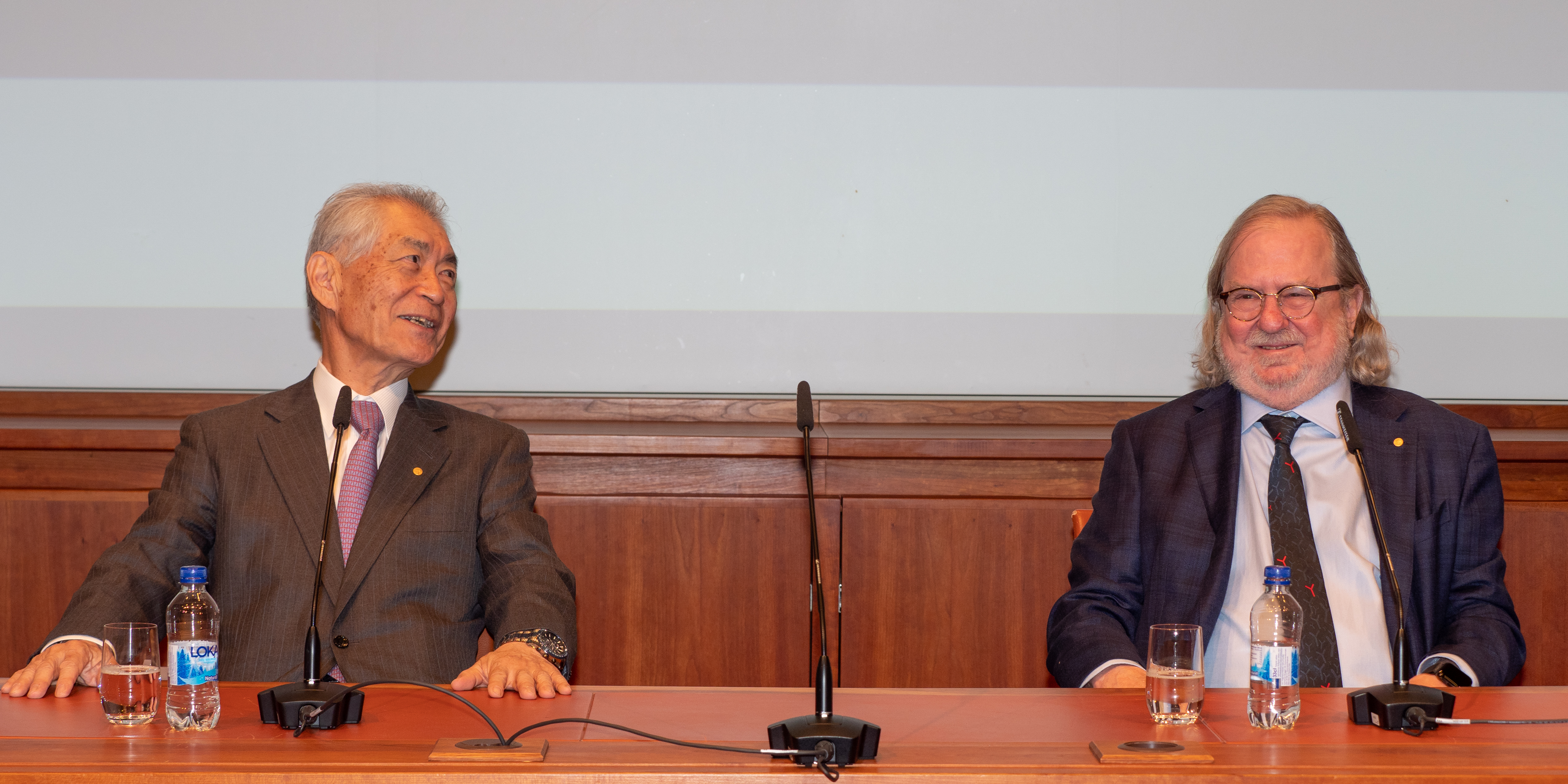 Nobel Laureates in Medicin 2018, Stockholm, Sweden, December 2018 Press conference.